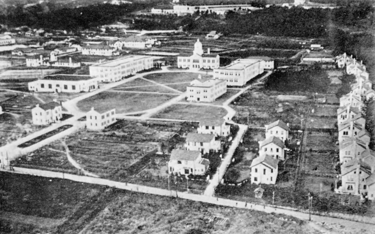 PD photo of (Nishinomiya) Uegahara Campus in 1920s